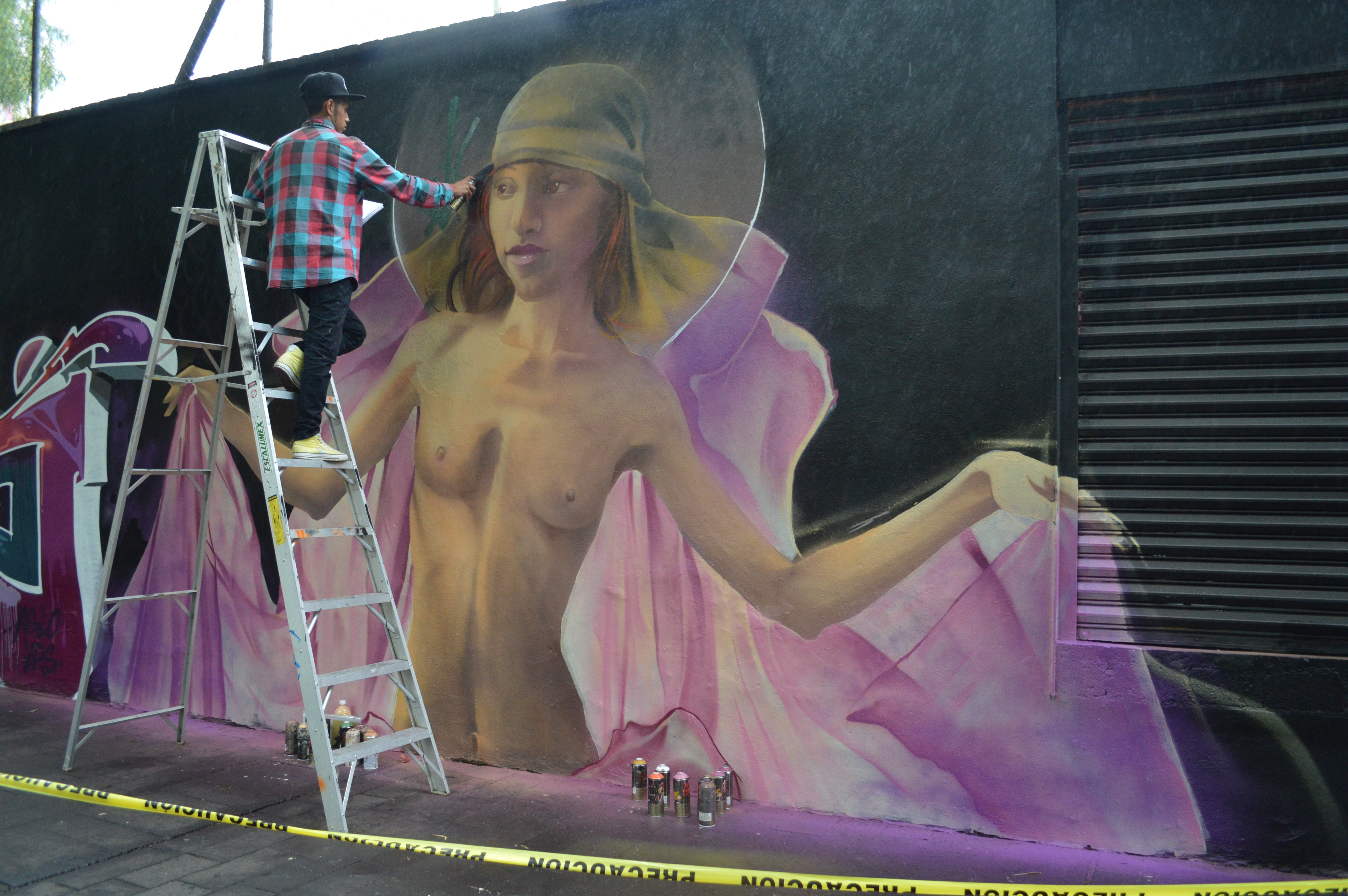 Graffiti mural being created as part of the Meeting of Styles 2015 in Mexico City